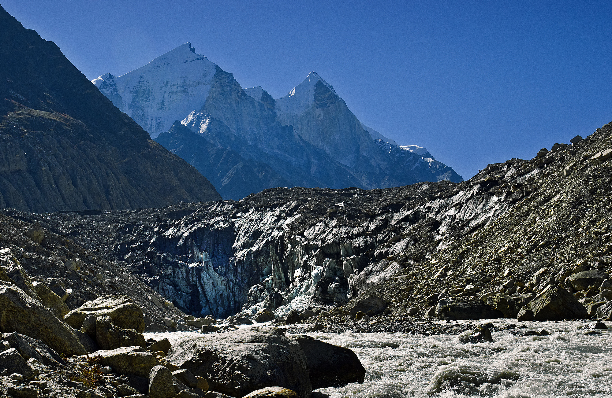 Gomukh glacier the source of Ganga